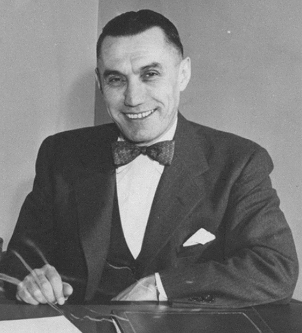 Official congressional portrait for Delaware Senator J. Allen Frear